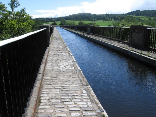 The Union Canal Avon Aqueduct